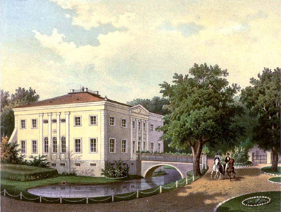 Manor in Rakoszyce